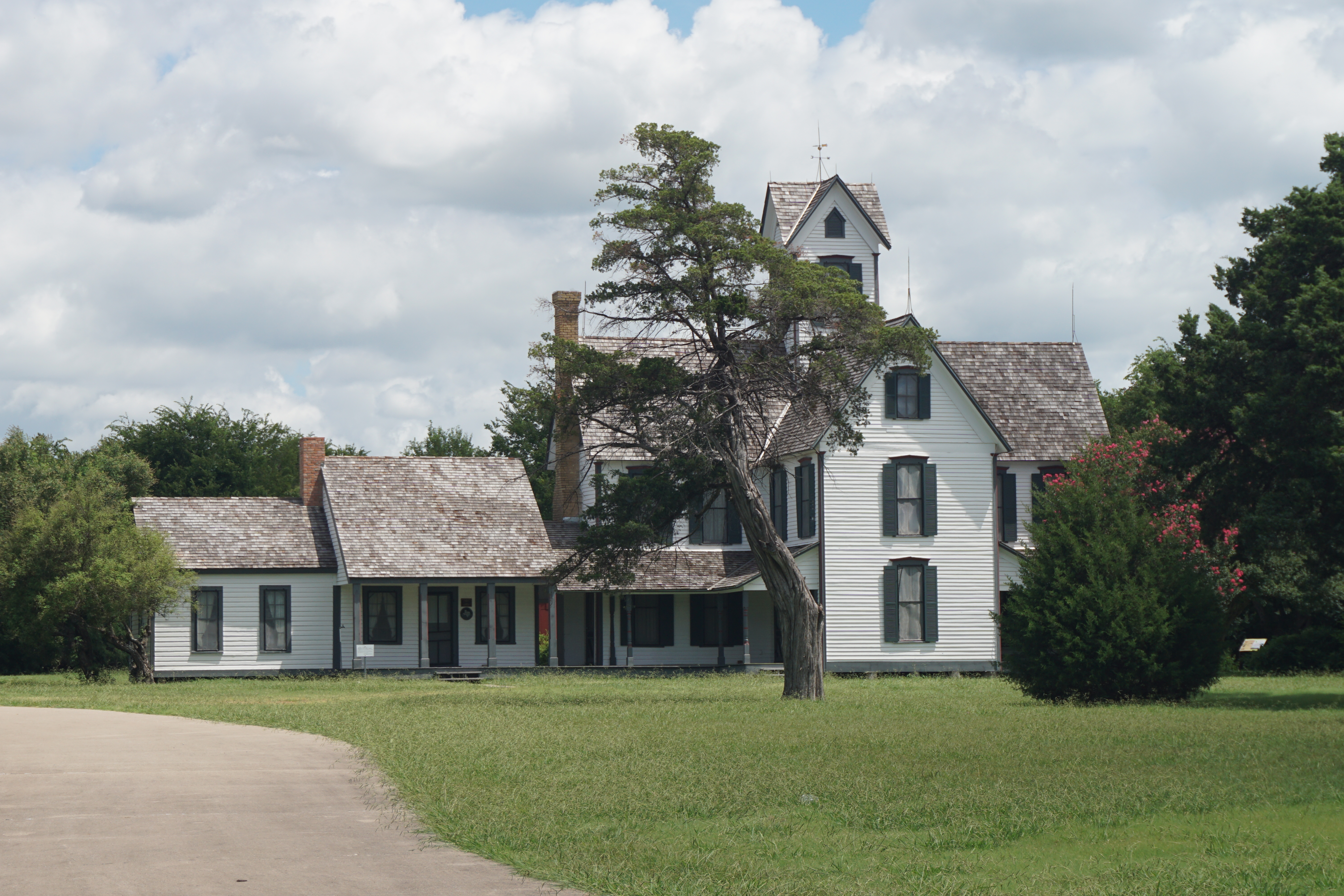 The Stephen Decatur Lawrence Farmstead in Mesquite, Texas (United States).